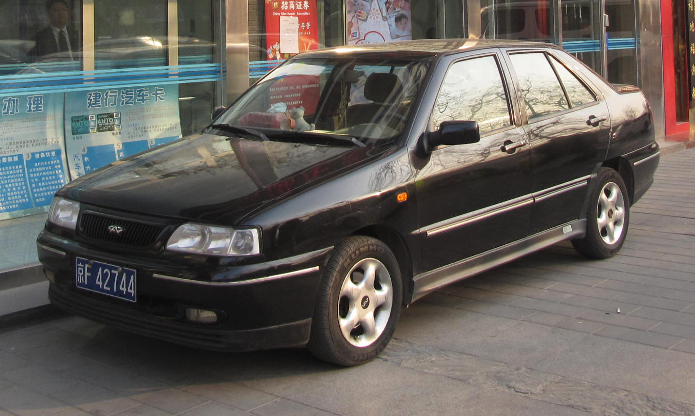 Qirui (Chery) Fengyun SQR7160 (Windcloud) 70 Pictures of Beijing - Dec 14: Random collection of pics showing our life here in Beijing. The men in the photos are breaking holes in the ice so they can go fishing in the canal. Camera: Canon PowerShot SX200 IS License on Flickr (2011-01-12): CC-BY-2.0 Flickr tags: Beijing, China, Cars, Street, Bank